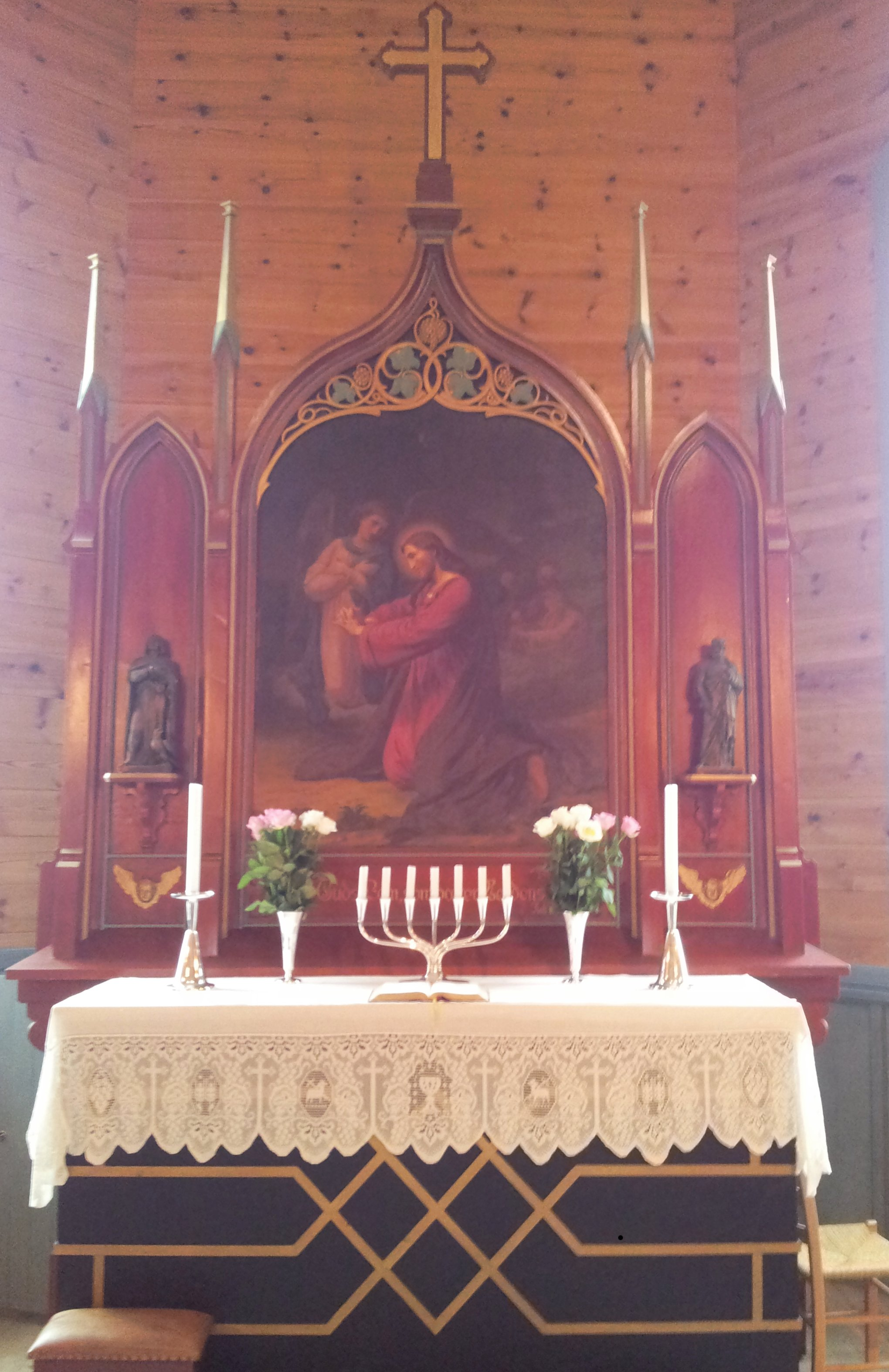 Altar and altarpiece in Austrheim church, Austrheim, Norway